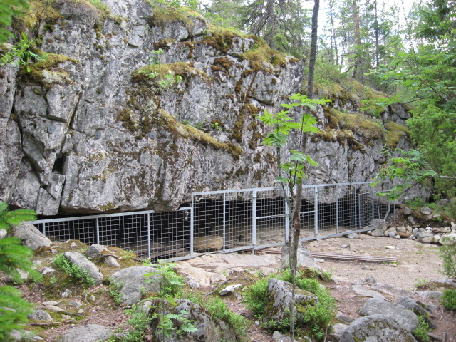 Wolf Cave in Karijoki, Finland.